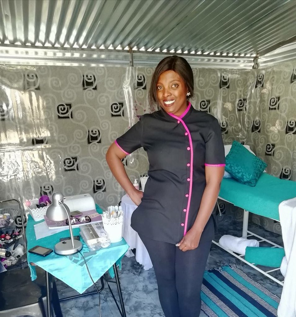 Africa the motherland